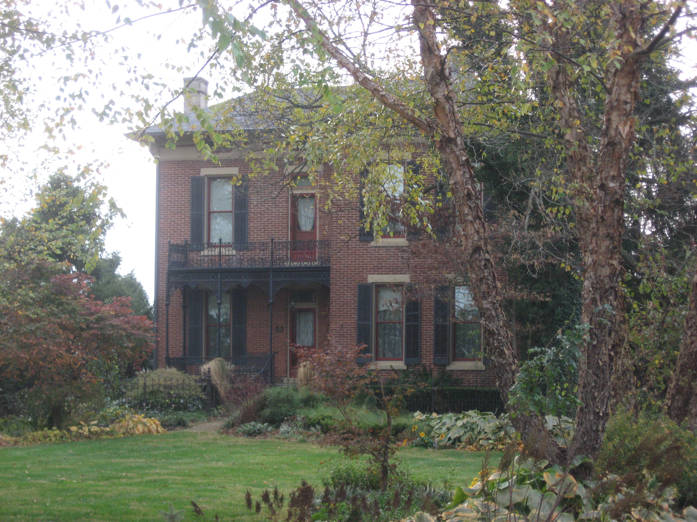 Front of the Heck-Hasler House, located at 6612 N. 575E northeast of Franklin in Clark Township, Johnson County, Indiana, United States. Built in 1868, the house is listed on the National Register of Historic Places.